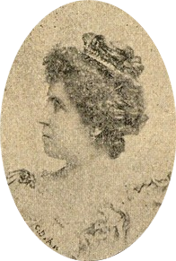 The Countess of Proença-a-Velha (1864-1944), Portuguese aristocrat and musician